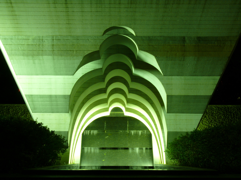 Irei-no-Izumi (慰霊の泉), a spring dedicated to war dead in Yasukuni Shrine.